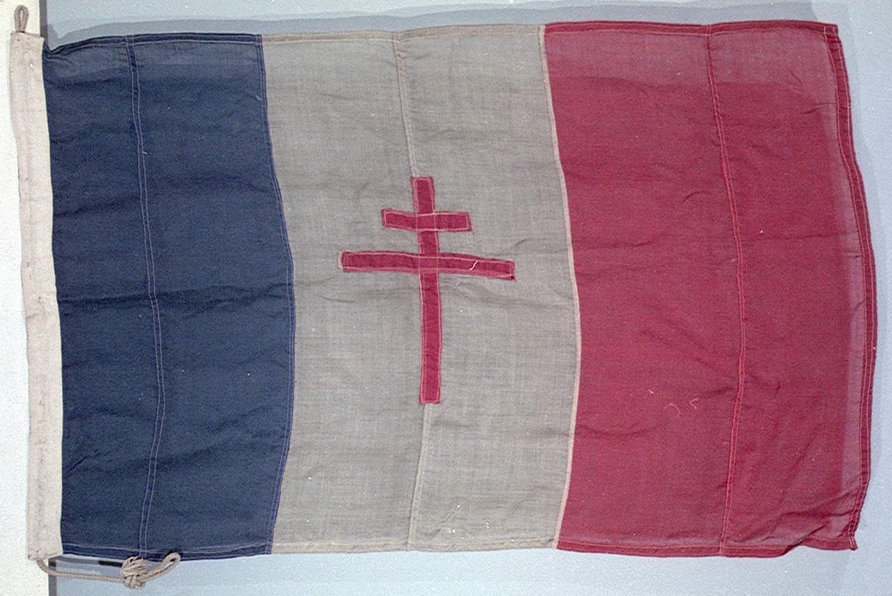 Free French flag A wool bunting flag with a cotton hoist, machine sewn and with a rope attached. It is divided into three vertical stripes, blue, white and red with the red cross of Lorraine on the white stripe. 'FF' is marked in ink on the hoist. The flag was used by the French forces in opposition to the German occupation, led in exile by General Charles de Gaulle (1890-1970). The cross of Lorraine was added to the French tricolour to distinguish it from the French national flag still in use by the Vichy government - in effect a German puppet state. unavailable